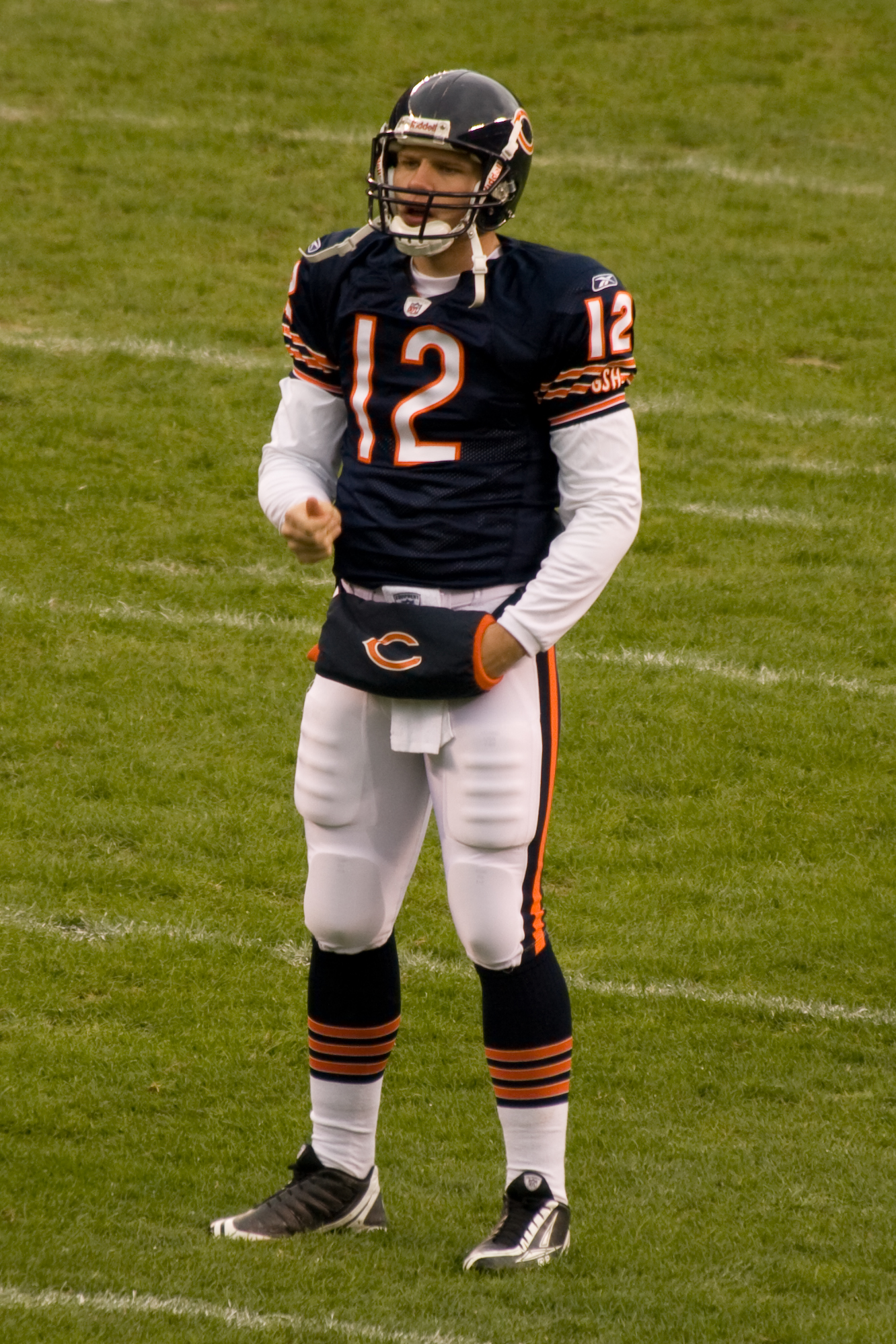 Caleb Hanie of the Chicago Bears